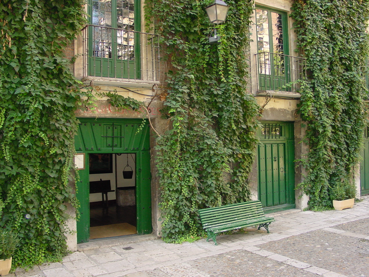 House of Cervantes in Valladolid (Spain)